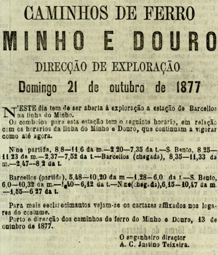 Advertisement of the portuguese operator Caminhos de Ferro do Minho e Douro (Minho and Douro Railways), informing the public that on the 21st of October 1877 was going to be opened the Minho Railway until Barcelos. This image was published on the Diario Illustrado newspaper No. 1679, of 19th October 1877, and scanned by the Biblioteca Nacional de Portugal.